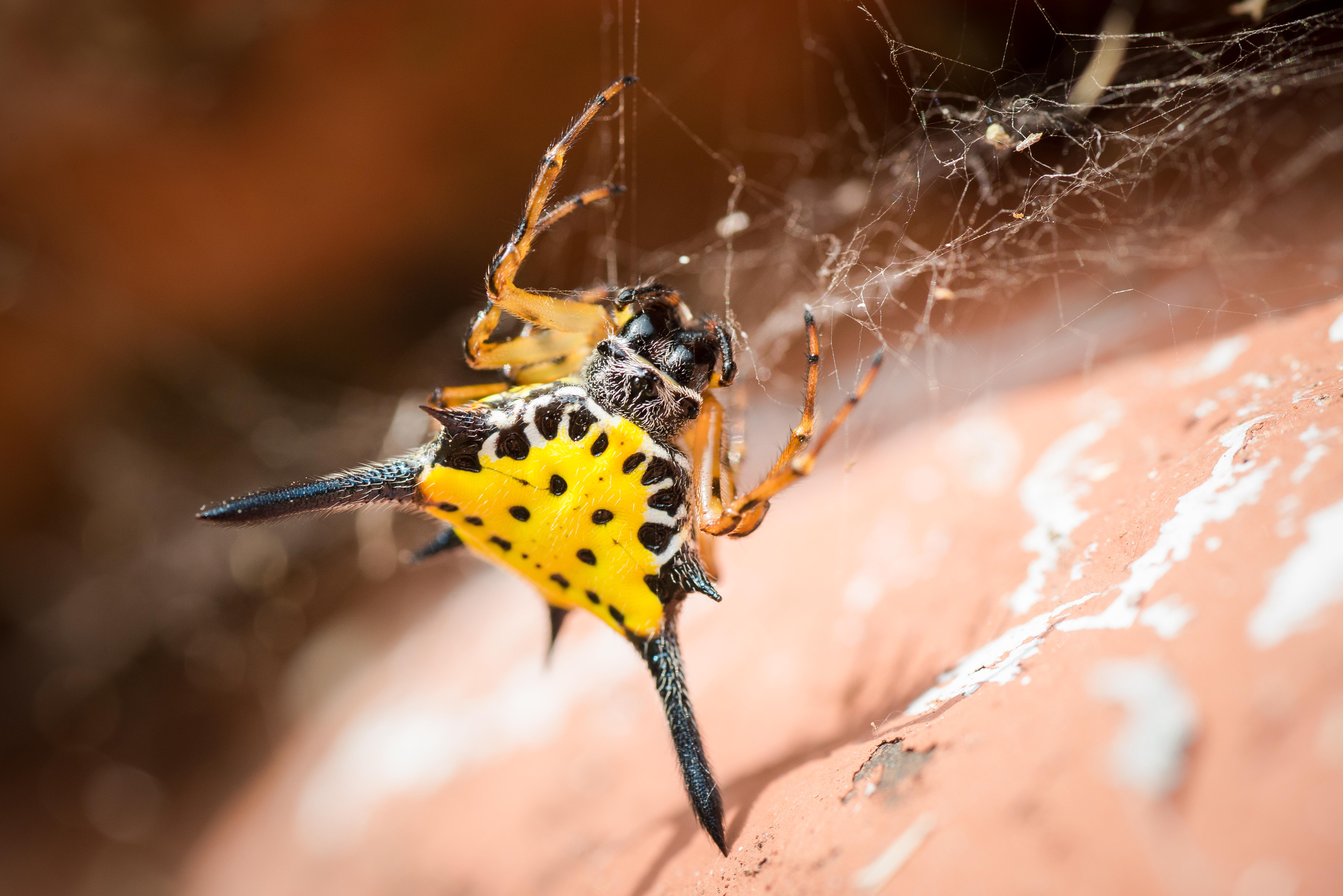 Hasselt's spiny spider, gasteracantha hasselti - Kaeng Krachan National Park, Thailand Photo by Rushenb